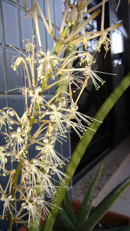 Sansevieria cylindrica flower